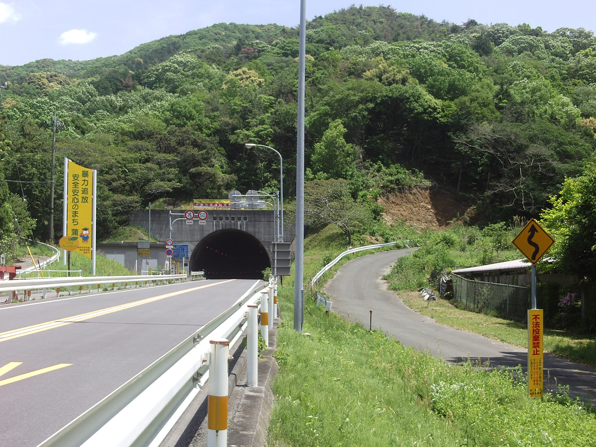 The Aichi Prefectural Road Route 73 (Otowa Gamagori Road, formerly Otowa Gamagori Toll Road) in Odawa, Seidacho, Gamagori City. On the right runs the old road